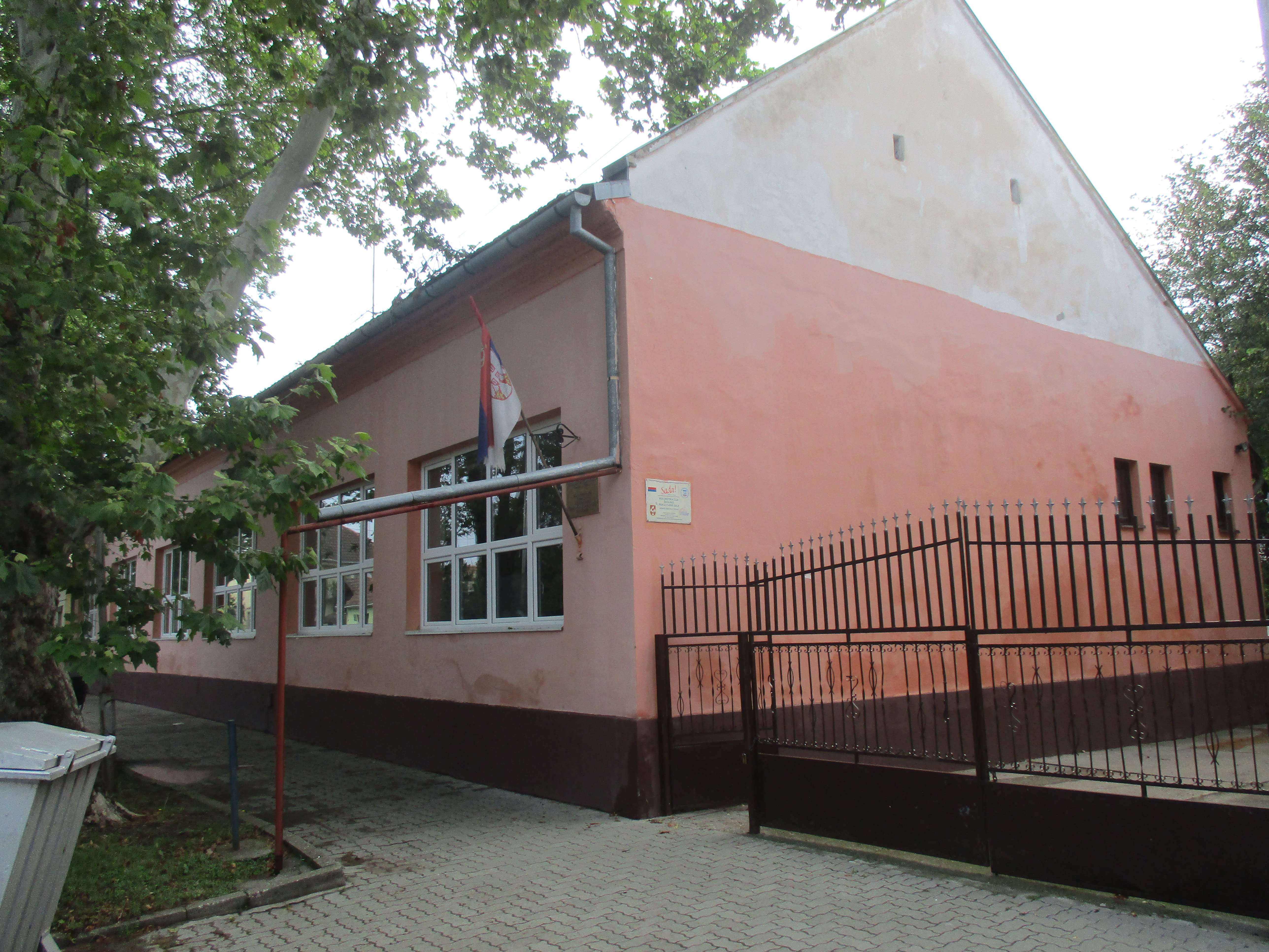 Primary school Bratstvo jedinstvo in Banatska Topola